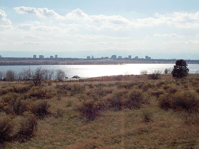 Cherry Creek Lake as seen from Cherry Creek State Park, about 10 miles southeast of Denver, Colorado. Photo taken April 9, 2006.